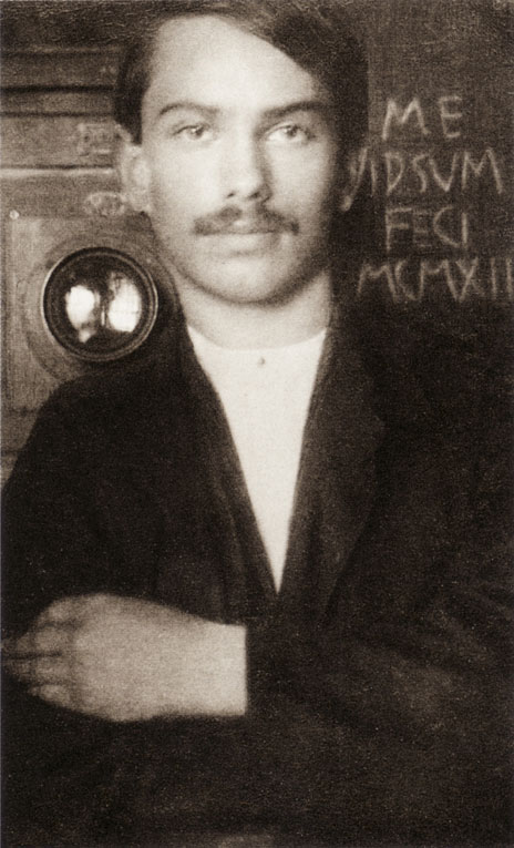 Selfportrait